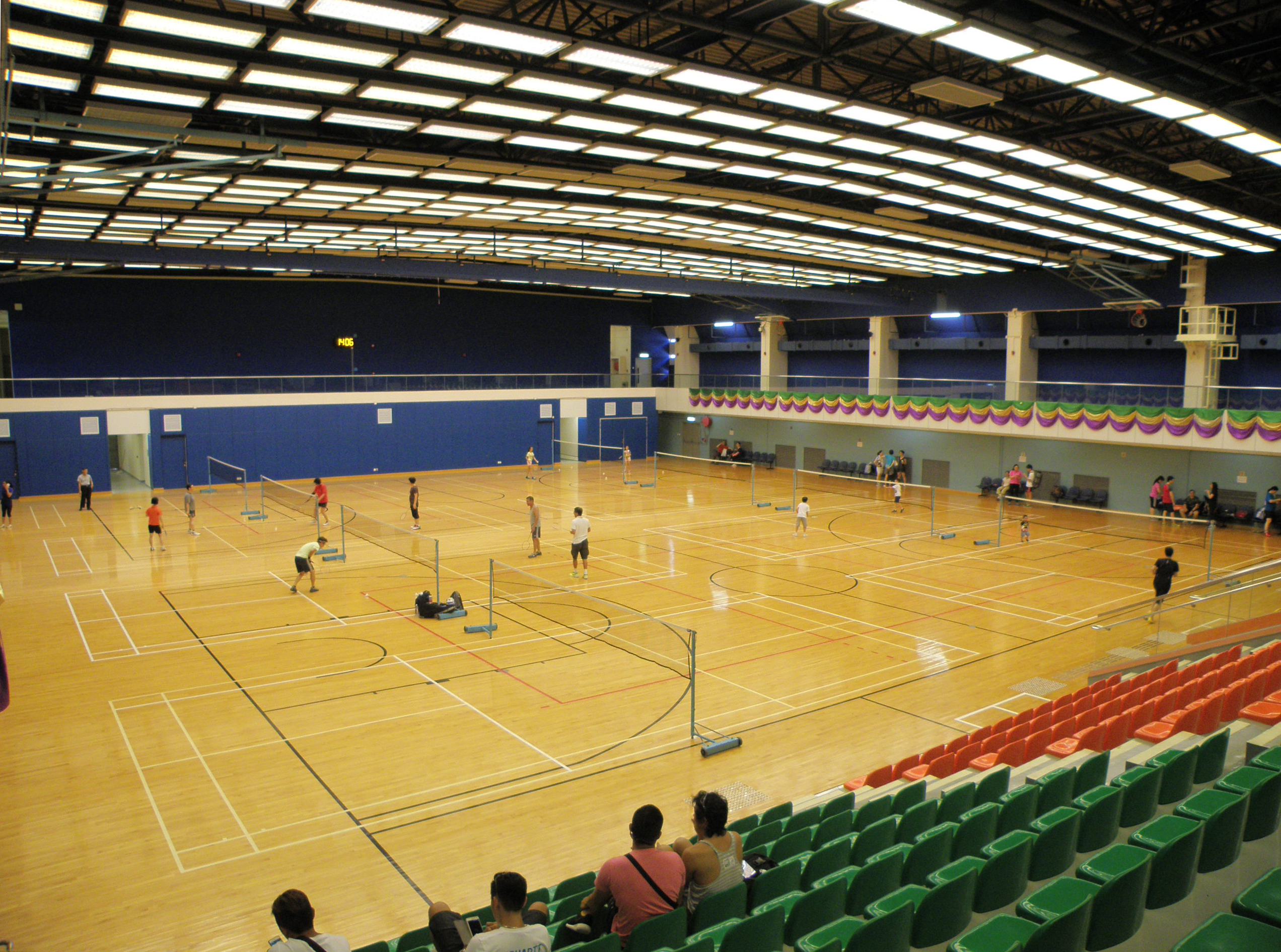 Lai Chi Kok Park Sports Centre in Mei Foo, Hong Kong.